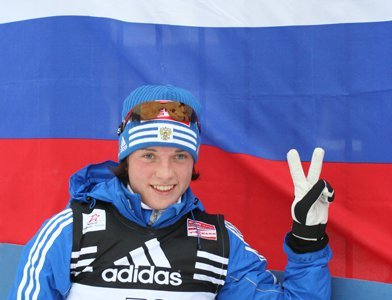 Svetlana Sleptsova, russian biathlete.